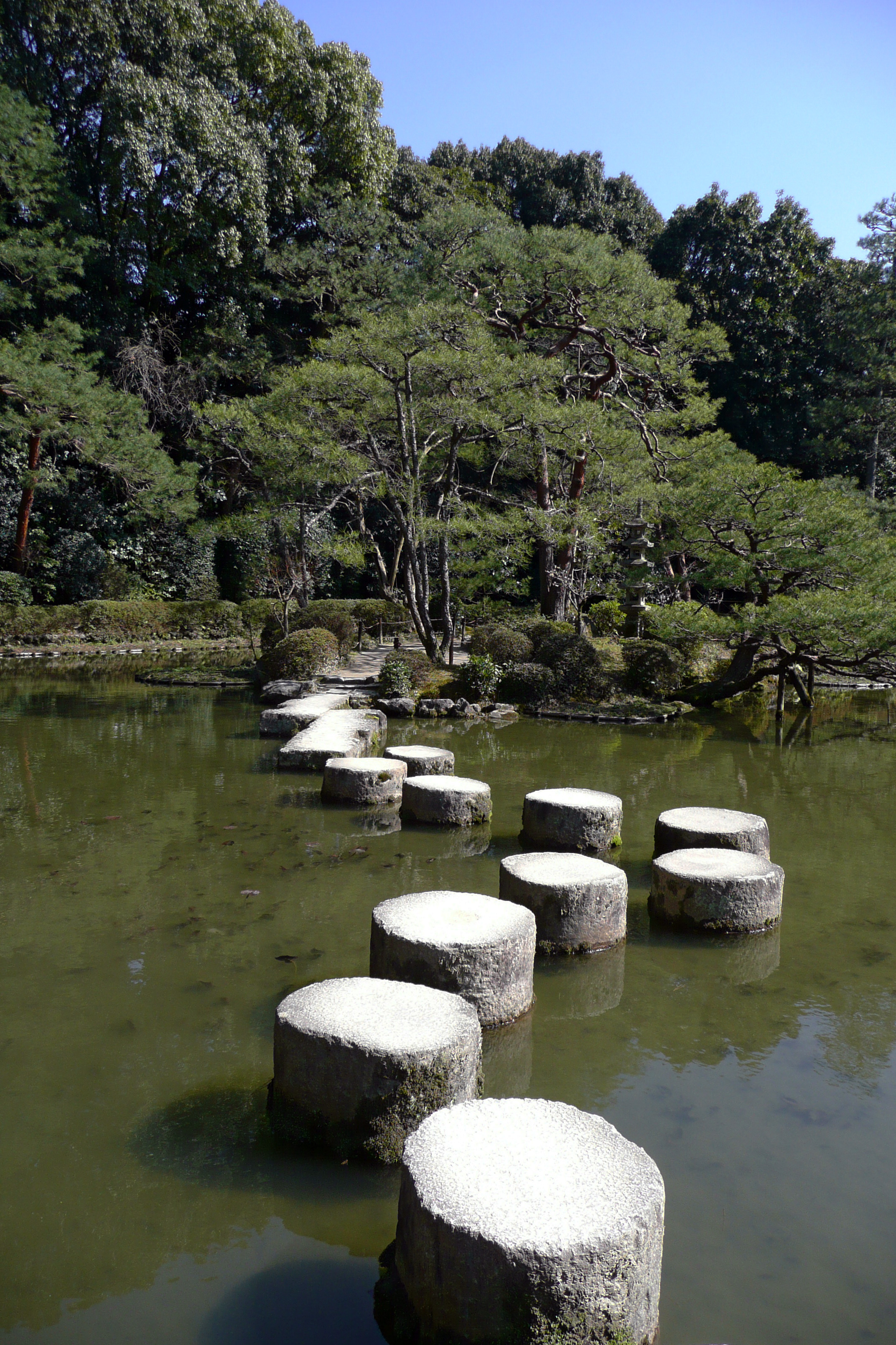 Heian-jingu shinen, Kyoto, Kyoto prefecture, Japan